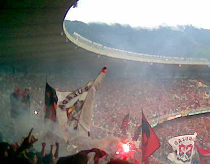 Clube de Regatas do Flamengo's fans at Maracanã stadium. This file was edit from its originally version.